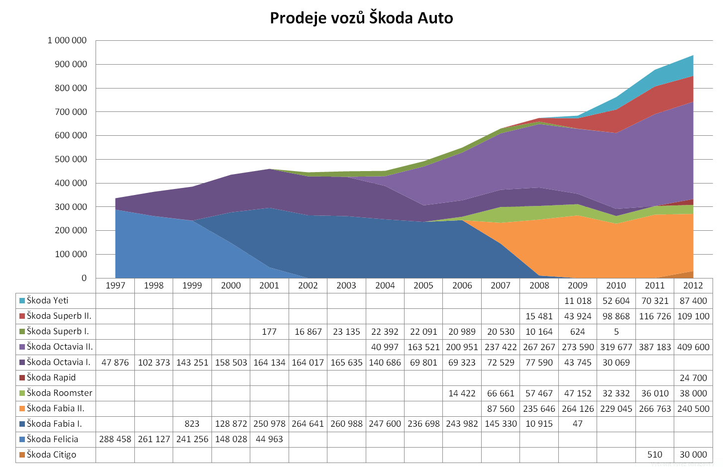 Graph of sales of Skoda Auto cars.